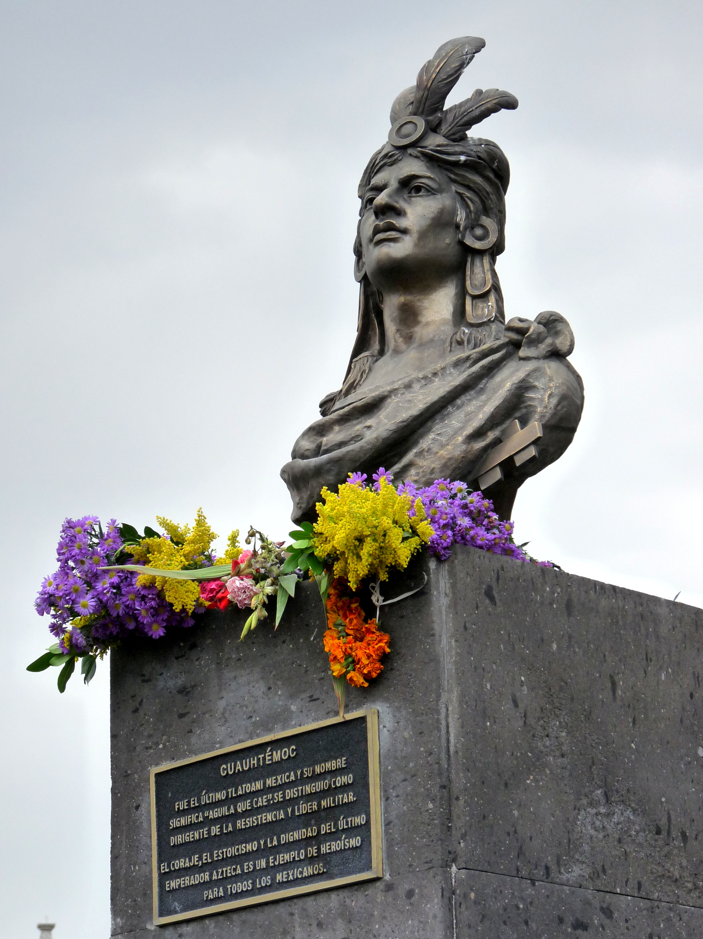 Cuauhtemoc monument in Zocalo